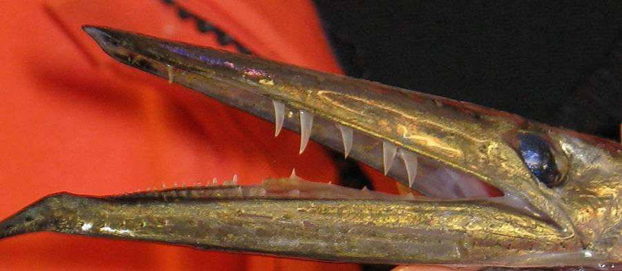 This up-close photo of Anotopterus vorax (2008) shows the iridescent gold color and sapphire blue eyes of the fish, which fade quickly after the fish dies. The unusual forward-curving teeth are also visible.